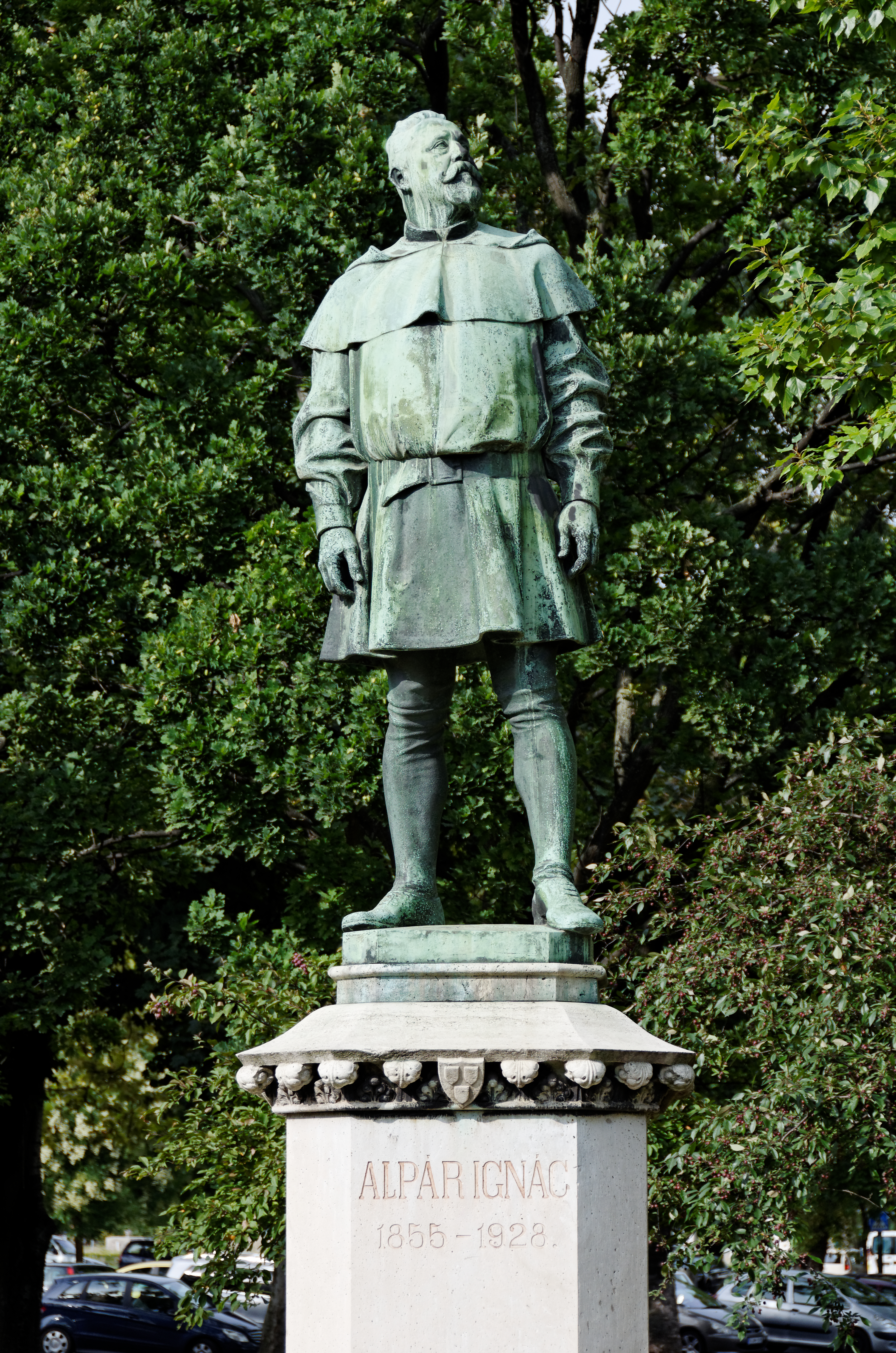 Statue of Ignác Alpár, Városliget (Budapest)